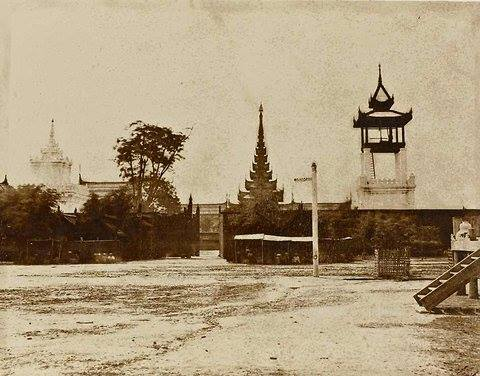 Amarapura Palace in November 1855, one of the first photographs ever taken in Myanmar - by the English photographer Linnaeus Tripe.